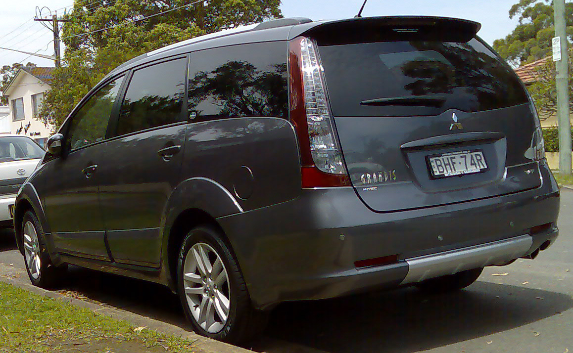 2006–2008 Mitsubishi Grandis (BA) VR-X minivan. Photographed in Gymea, New South Wales, Australia.